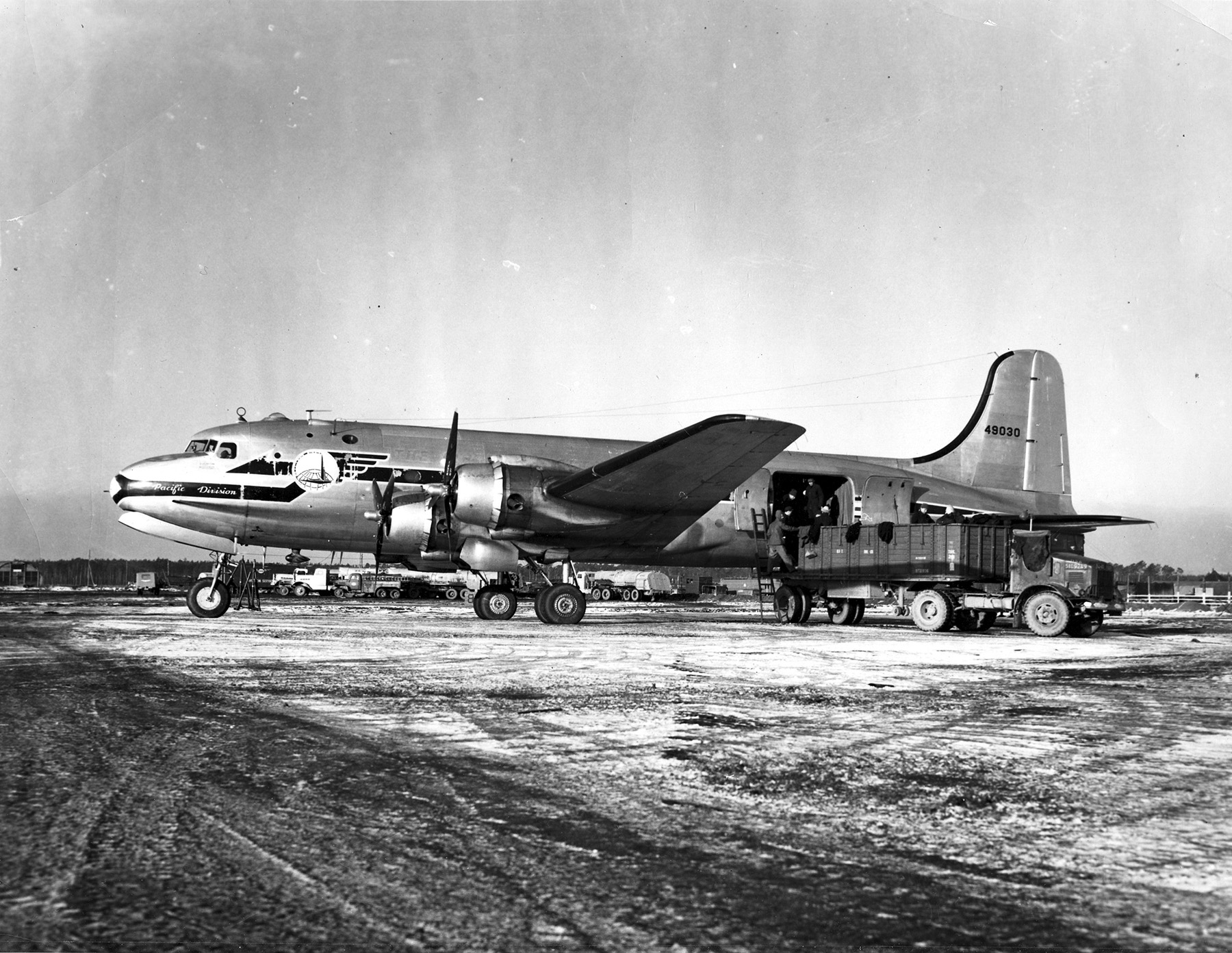 A U.S. Air Force Douglas C-54E-1-DO Skymaster (s/n 44-9030) used during the Berlin Airlift. This aircraft was later converted to a C-54M and retired to the MASDC on 26 July 1965. It was returned to service and is today display at the USAF Air Mobility Command Museum, Dover Air Force Base, Delaware (USA).